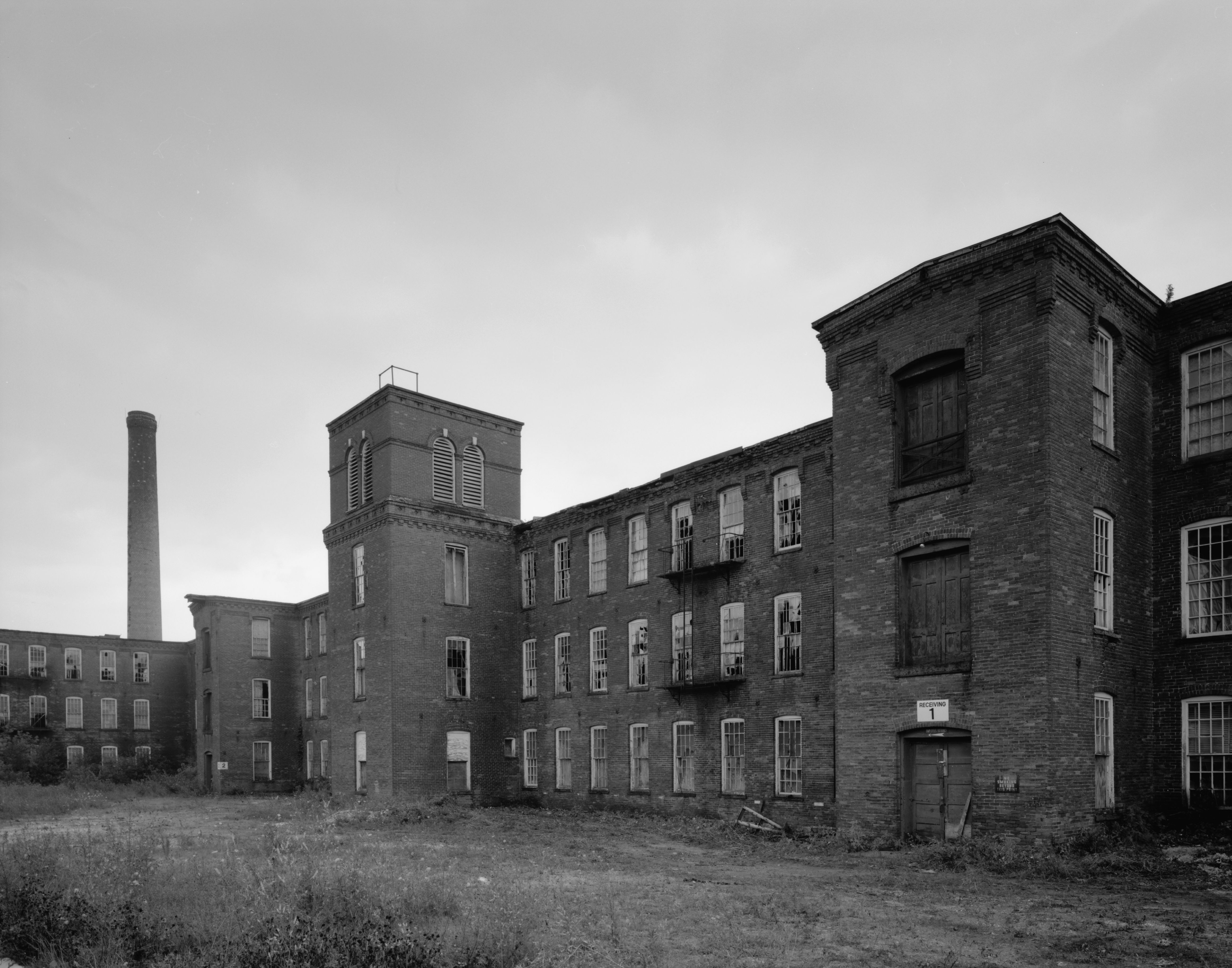 Renfrew Manufacturing Company Mill No. 2, Adams, Massachusetts (formerly part of Arnold Print Works)